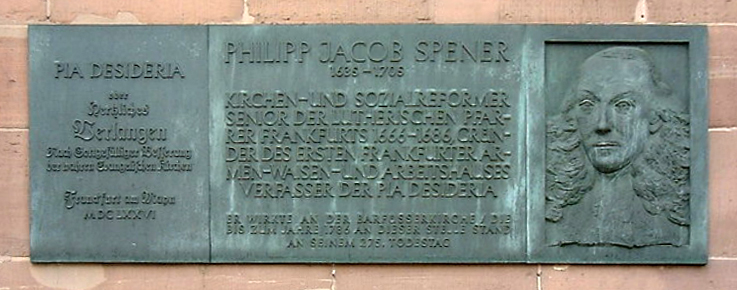 Part of the wall of the Frankfurter Paulskirche